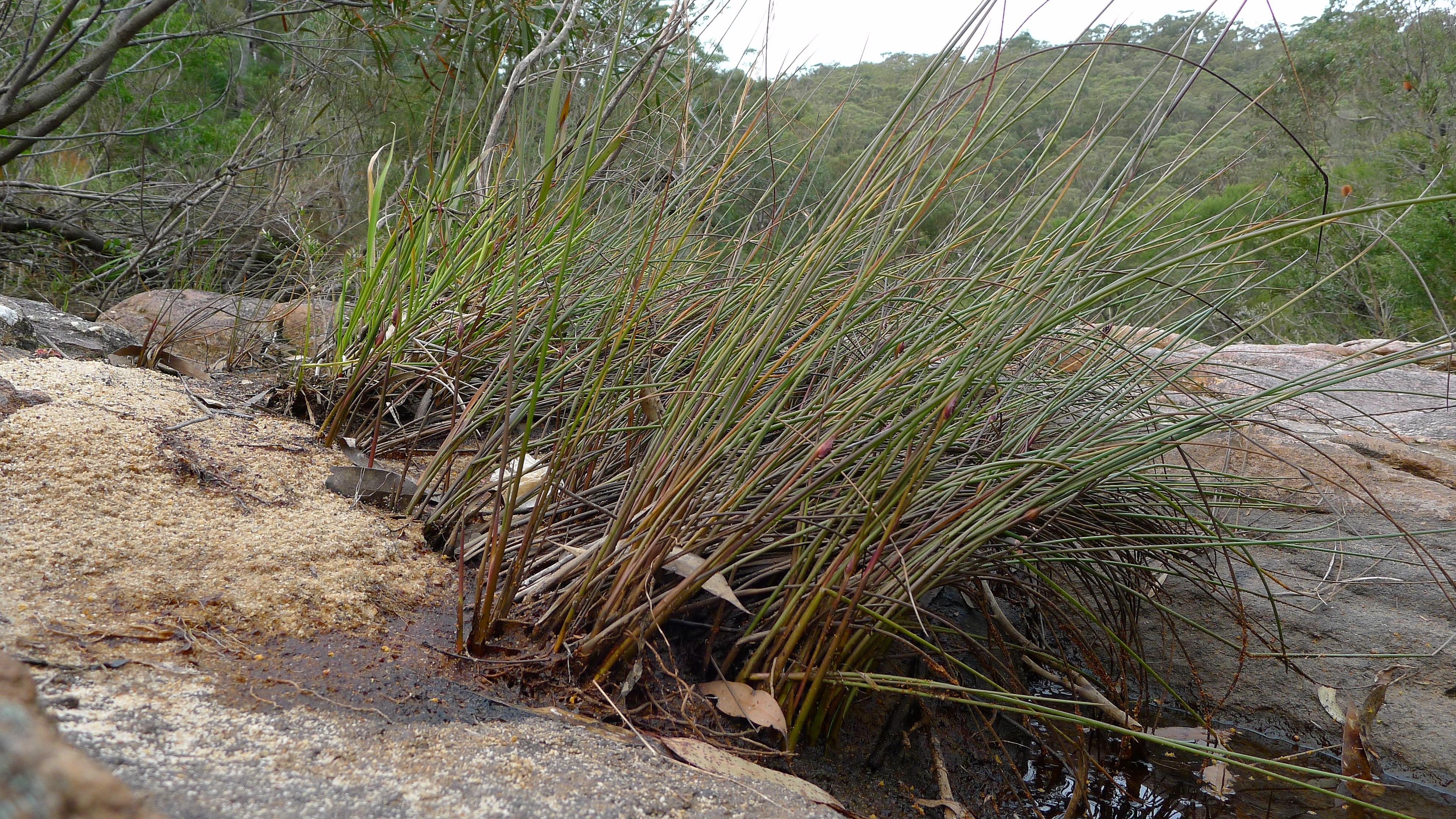 Bristle-rush, Chorizandra cymbaria, growing in a creek bed. Heathcote National Park, NSW Australia, August 2013.